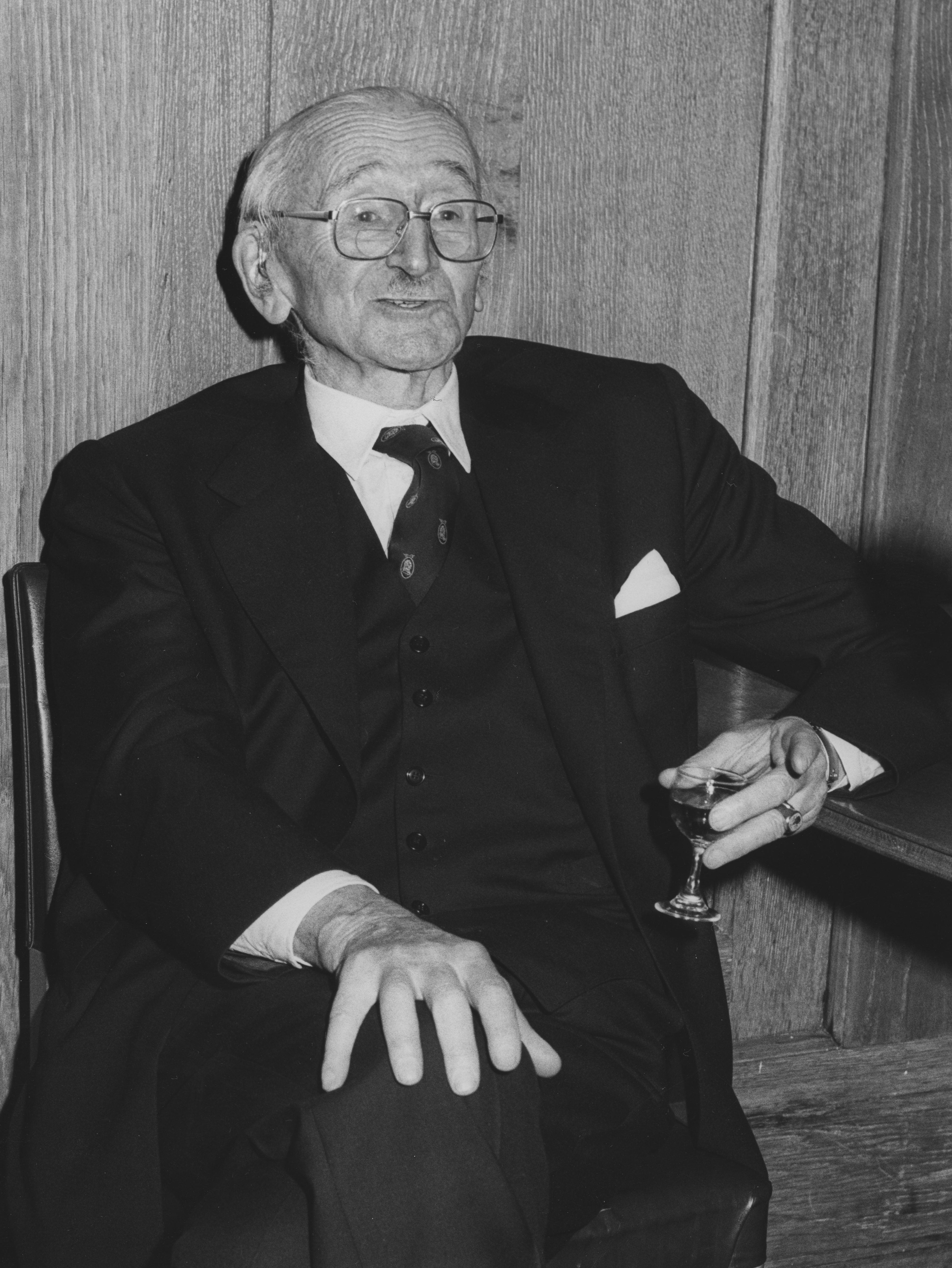 Professor of Economic Science at LSE 1931-1950, won Nobel prize for Economic Sciences in 1974. IMAGELIBRARY/1026 Persistent URL